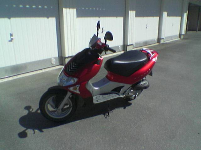 The picture of Kymco Super 9 AC, -04.